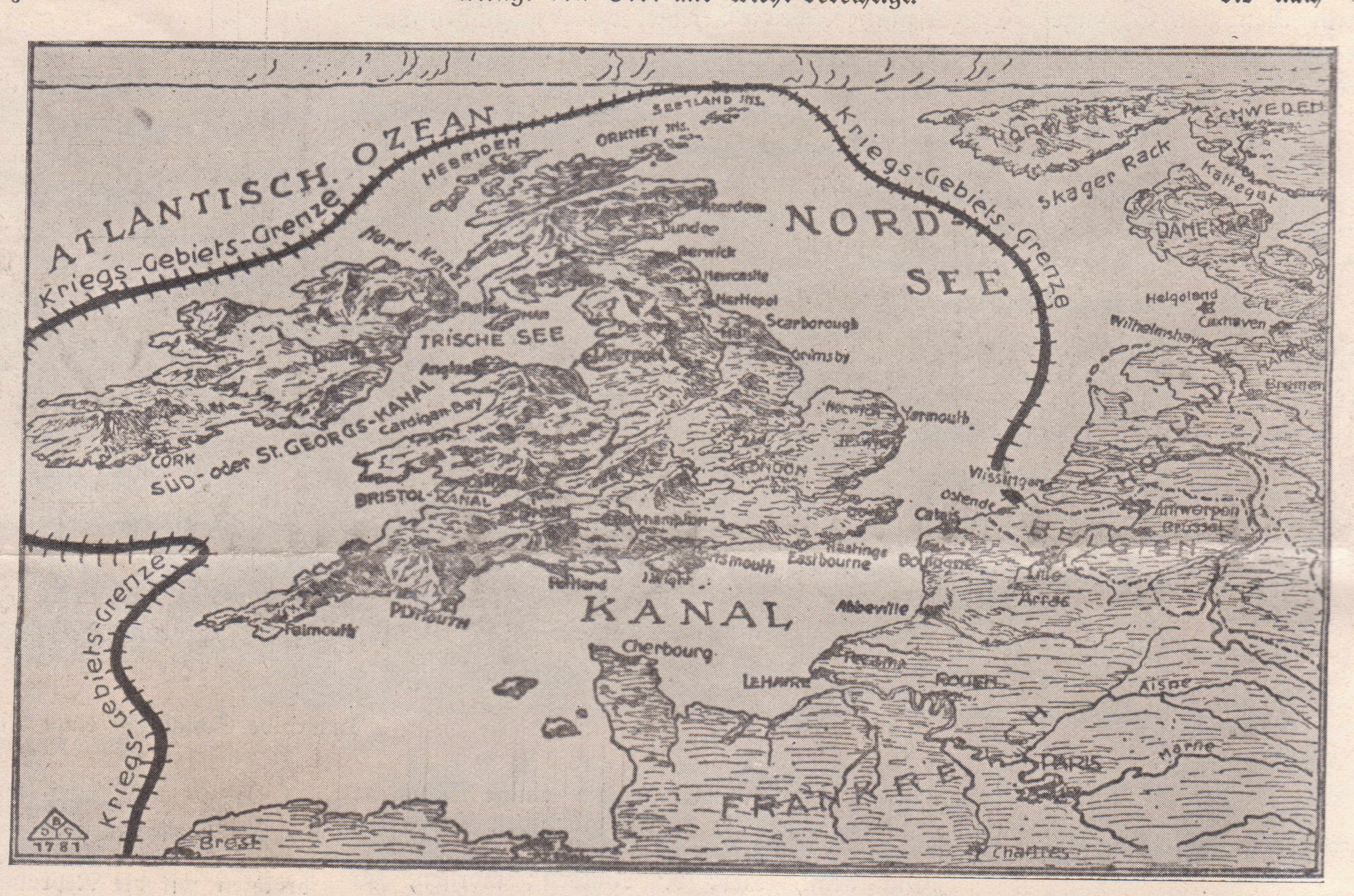 At the beginning of the German blockade of England statement on 18 February: Map of the blockade area